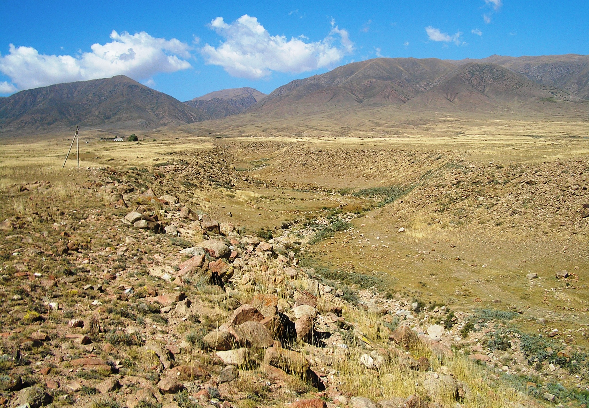 A dry gulch in the desert above Tamchy that, quite likely, formerly had a creek running at its bottom. It has been diverted to run on high ground parallel to the gulch (as seen e.g. in Image:E8218-Tamchy-green-strip.jpg), so that it is easier to get water from it for irrigating fields etc.